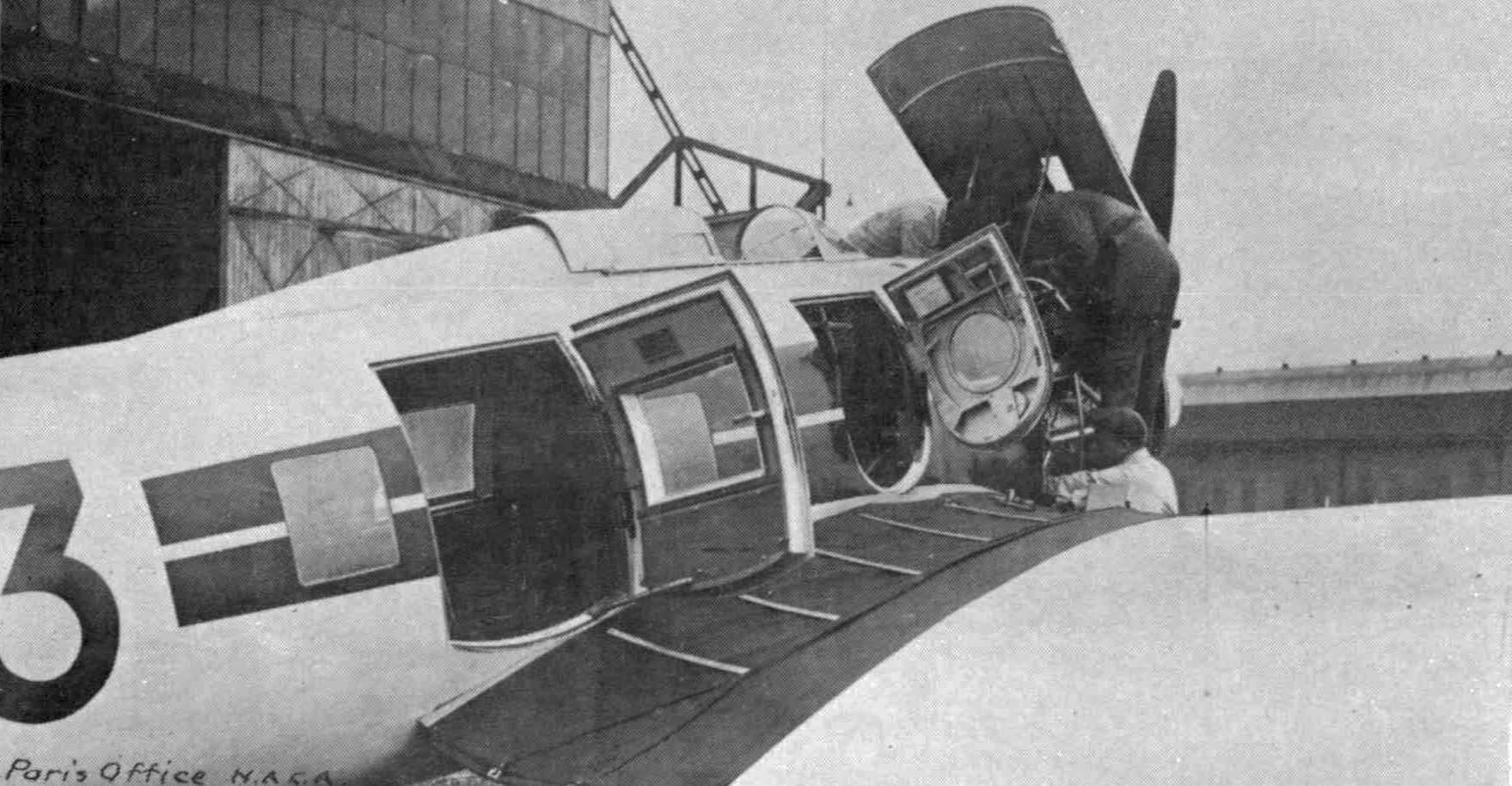 Heinkel He.70 photo from NACA-AC-183